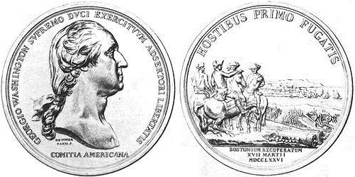 Congressional Gold Medal voted for George Washington by Second Continental Congress 25 March 1776.